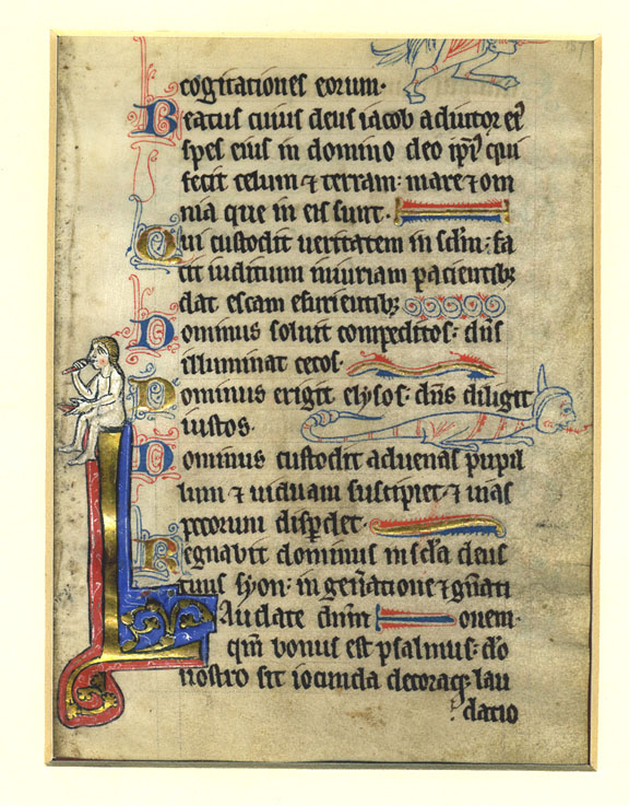 A medieval page presumably from a Book of Hours dating from the early 1300's.